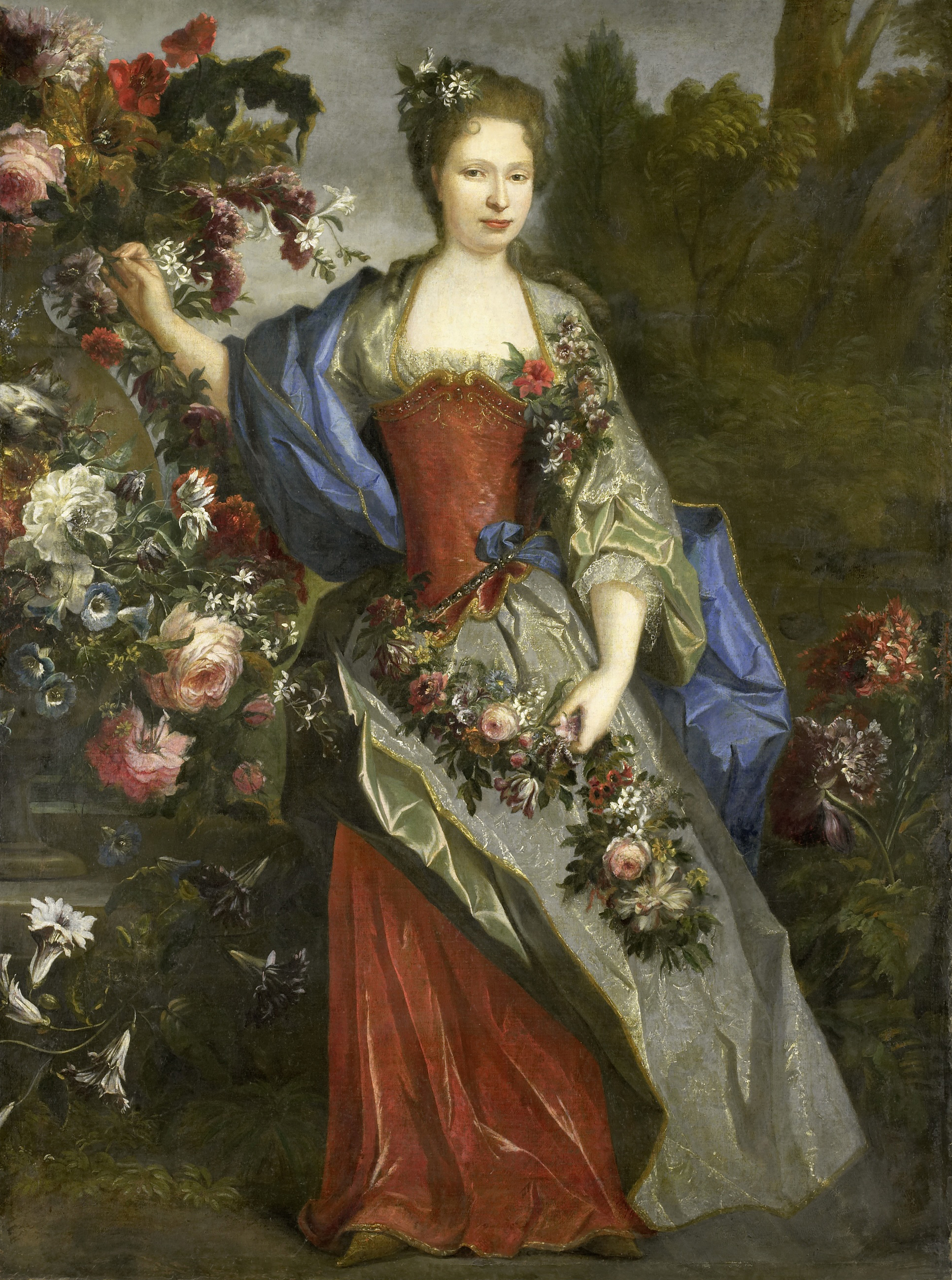 Portrait of a Woman as Flora, traditionally assumed to be Marie Louise Élisabeth d'Orléans, Duchess of Berry